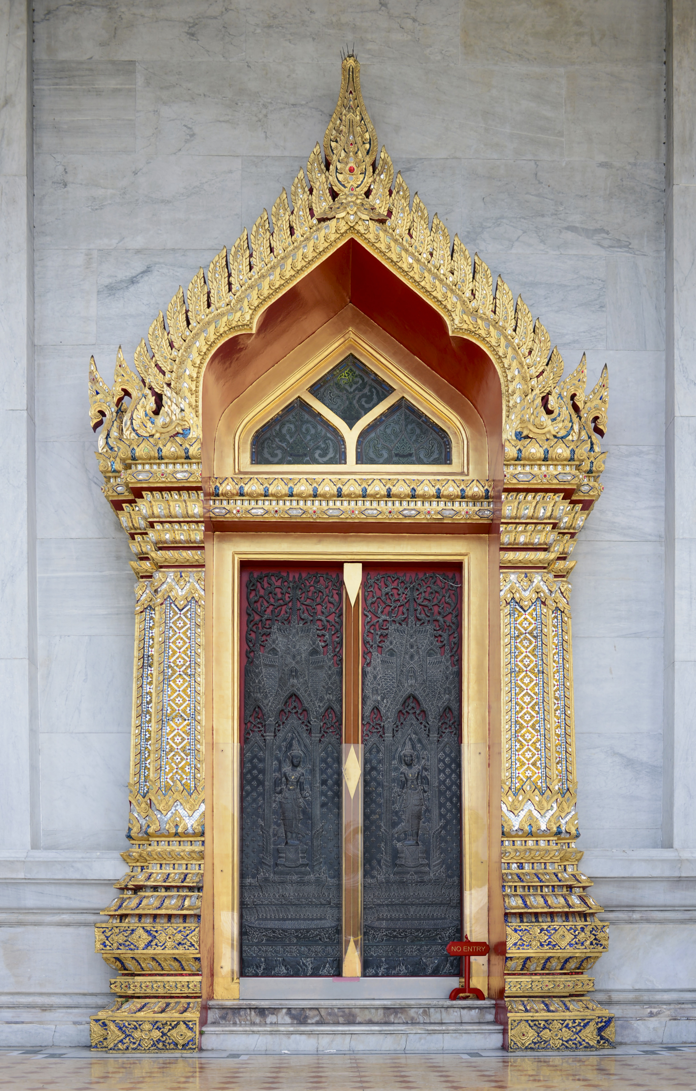 Wat Benchamabophit (Marble Temple) (Thai: วัดเบญจมบพิตรดุสิตวนารามราชวรวิหาร) in Bangkok, Thailand.